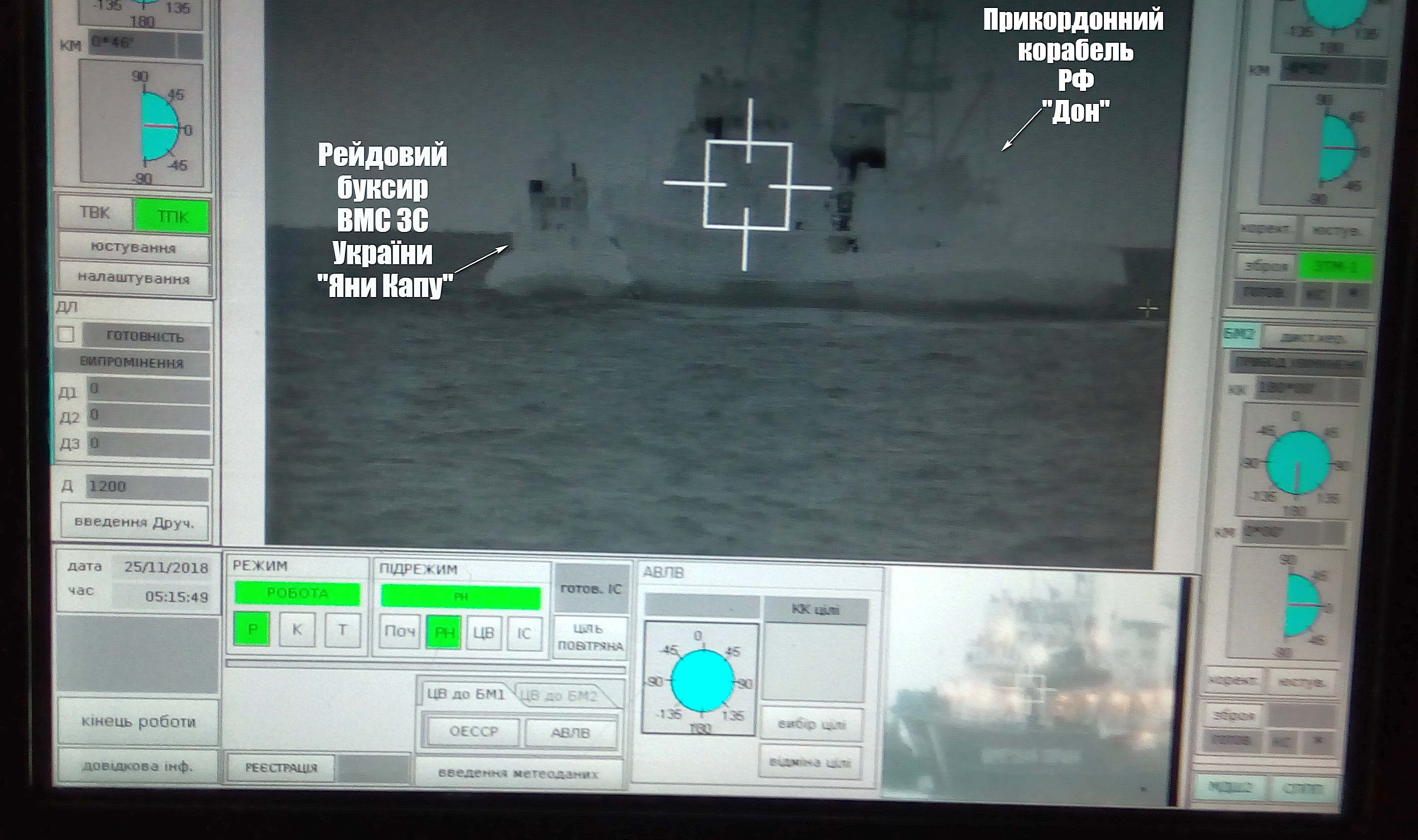 Ukrainian 'Yani Kapu' tugboat (Krasnoperekopsk until 2016) attacked by Russian 'Don' patrol boat as seen on a screen of Ukrainian Gyurza-M artillery boat